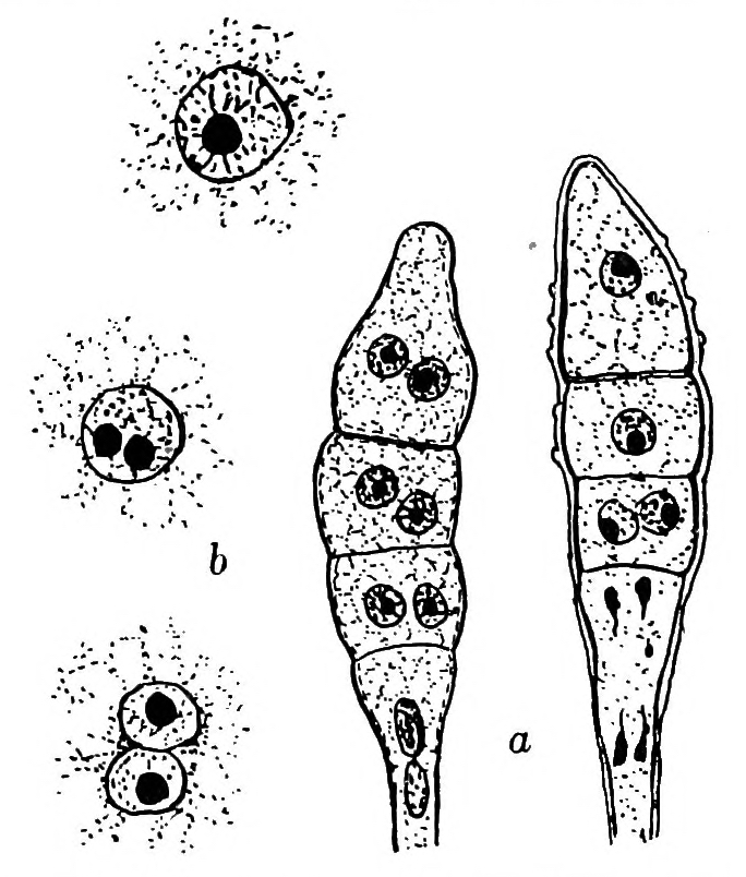 Phragmidium violaceum a teleutosporen X1080, b fusion on nuclei in teleutospore X1520; after Blackman. From Fungi, ascomycetes, ustilaginales, uredinales published by Cambridge University Press, page 206